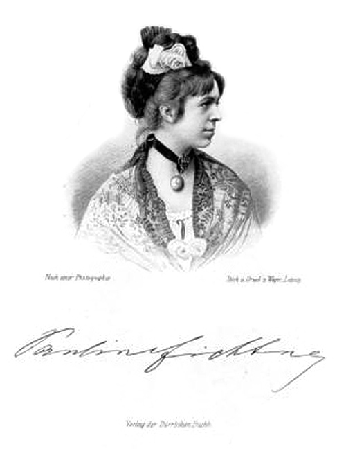 The portrait of German pianist Pauline von Erdmannsdörfer-Fichtner